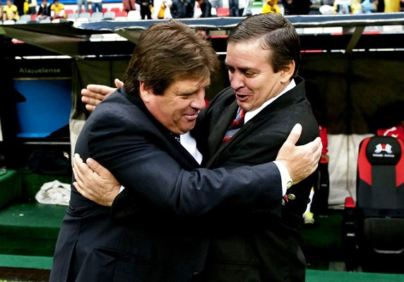 Óscar Ramírez greeting Miguel Herrera